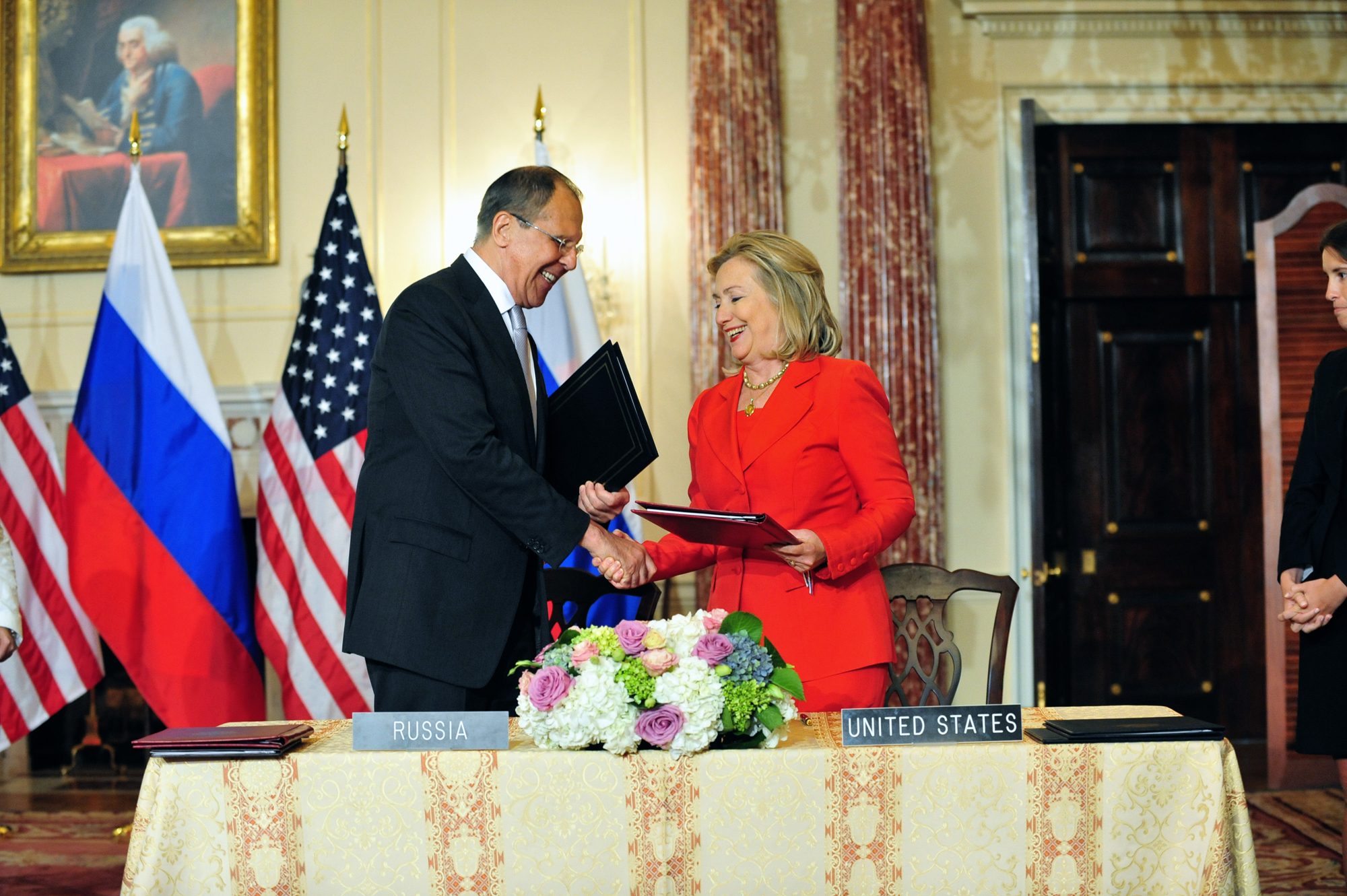 U.S. Secretary of State Hillary Rodham Clinton shakes hands with Russian Foreign Minister Sergey Lavrov after a signing ceremony at the U.S. Department of State in Washington, D.C., on July 13, 2011. [State Department photo/ Public Domain]